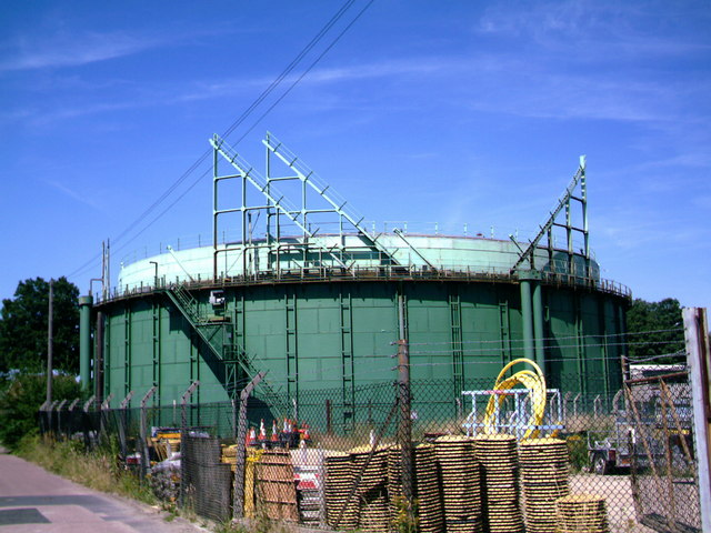 Gas Holder, Horley. Near Gatwick Metro Centre, an industrial area adjacent to Balcombe Road.